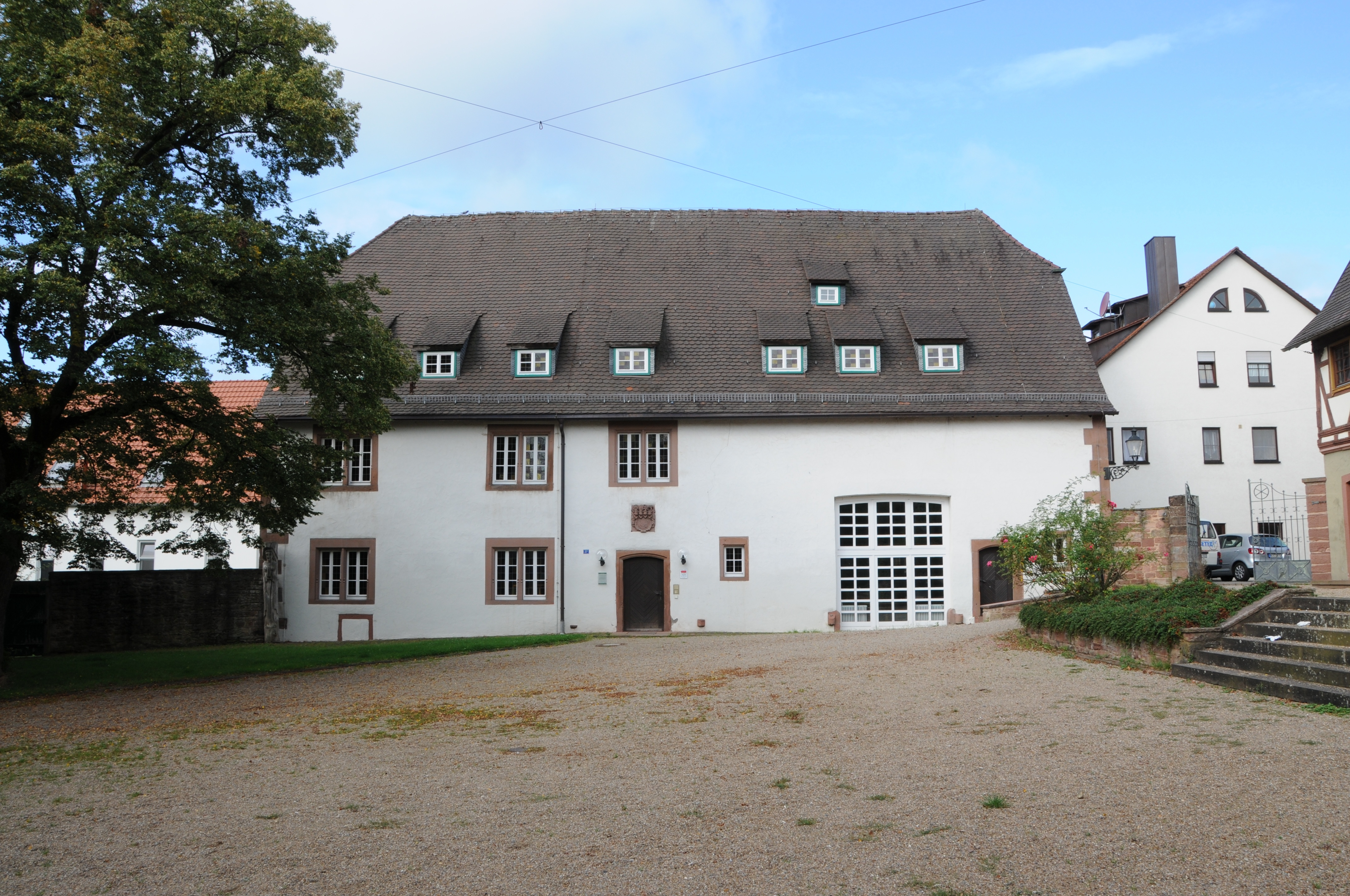 Zehntscheune (tithe barn), Buchen (Odenwald), Germany